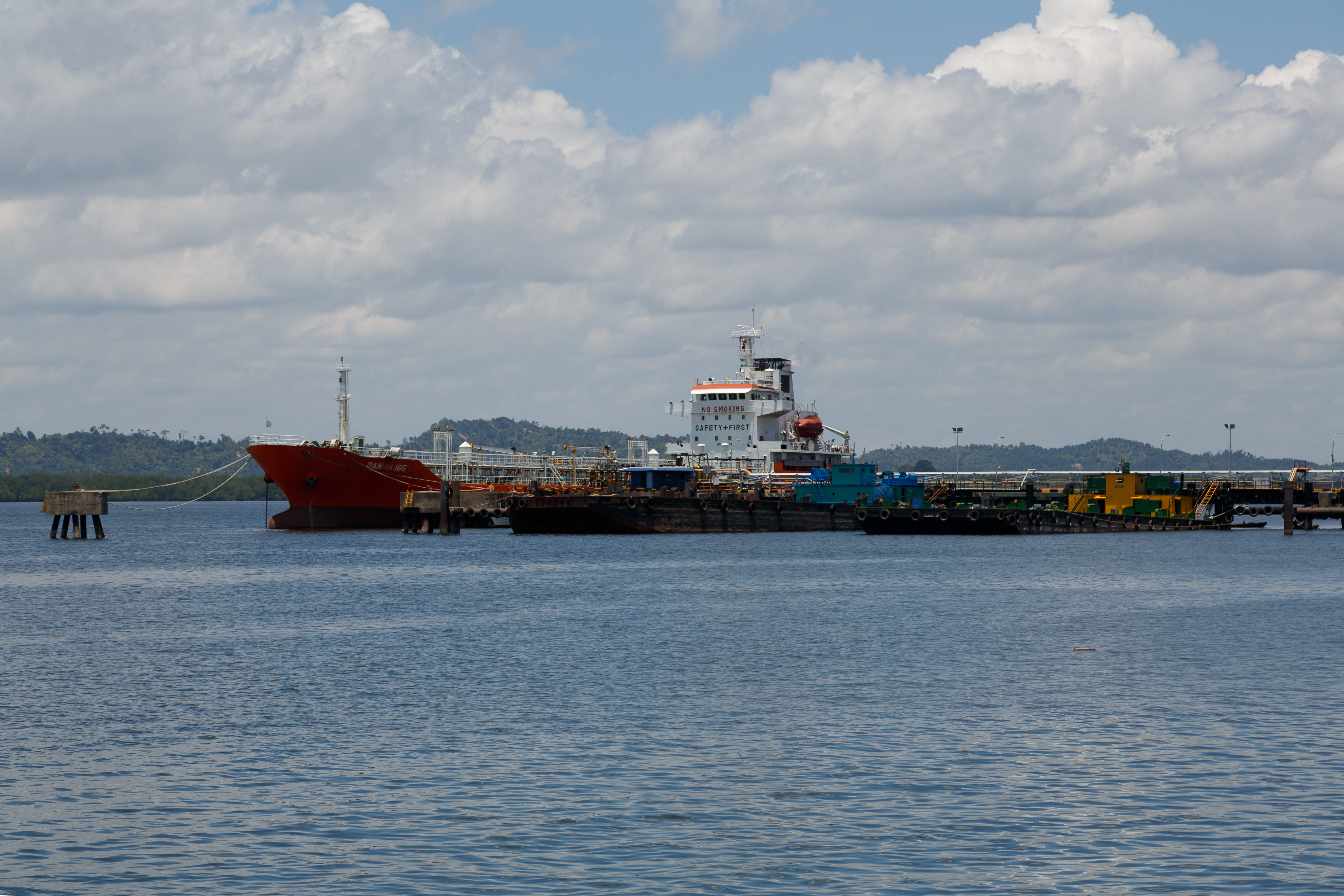 Sandakan, Sabah: DANUM 165, atank ship for edible oils at the jetty of IOI Edible Oils Sdn Bhd at Kg Bahagian